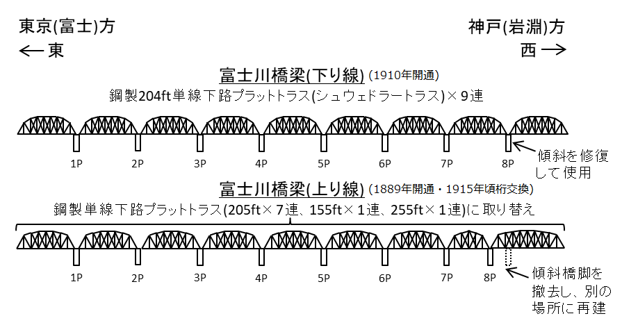 Description figure of Fujikawa railway bridge on Tokaido mainline, when the bridge was damaged by 1914 flood and repaired.